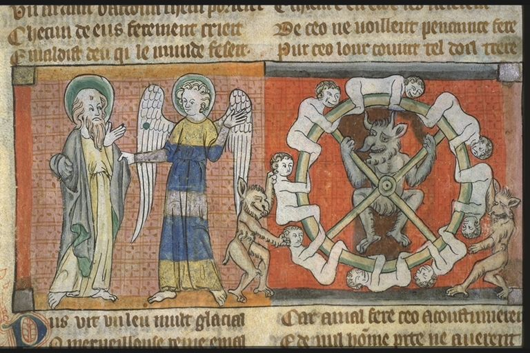 Illustration in manuscript of the Apocalypse of Paul, 12th century